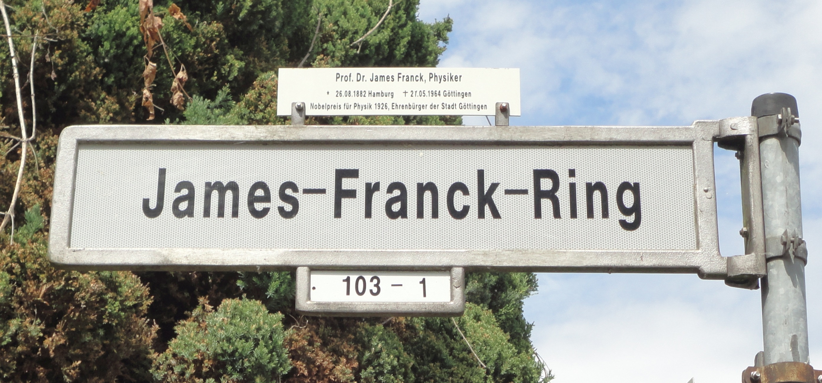 Göttingen-Weende, road sign James-Franck-Ring